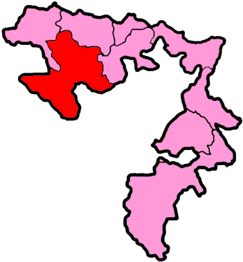 The third electoral unit of Republika Srpska (NSRS) shown within Bosnia and Herzegovina.